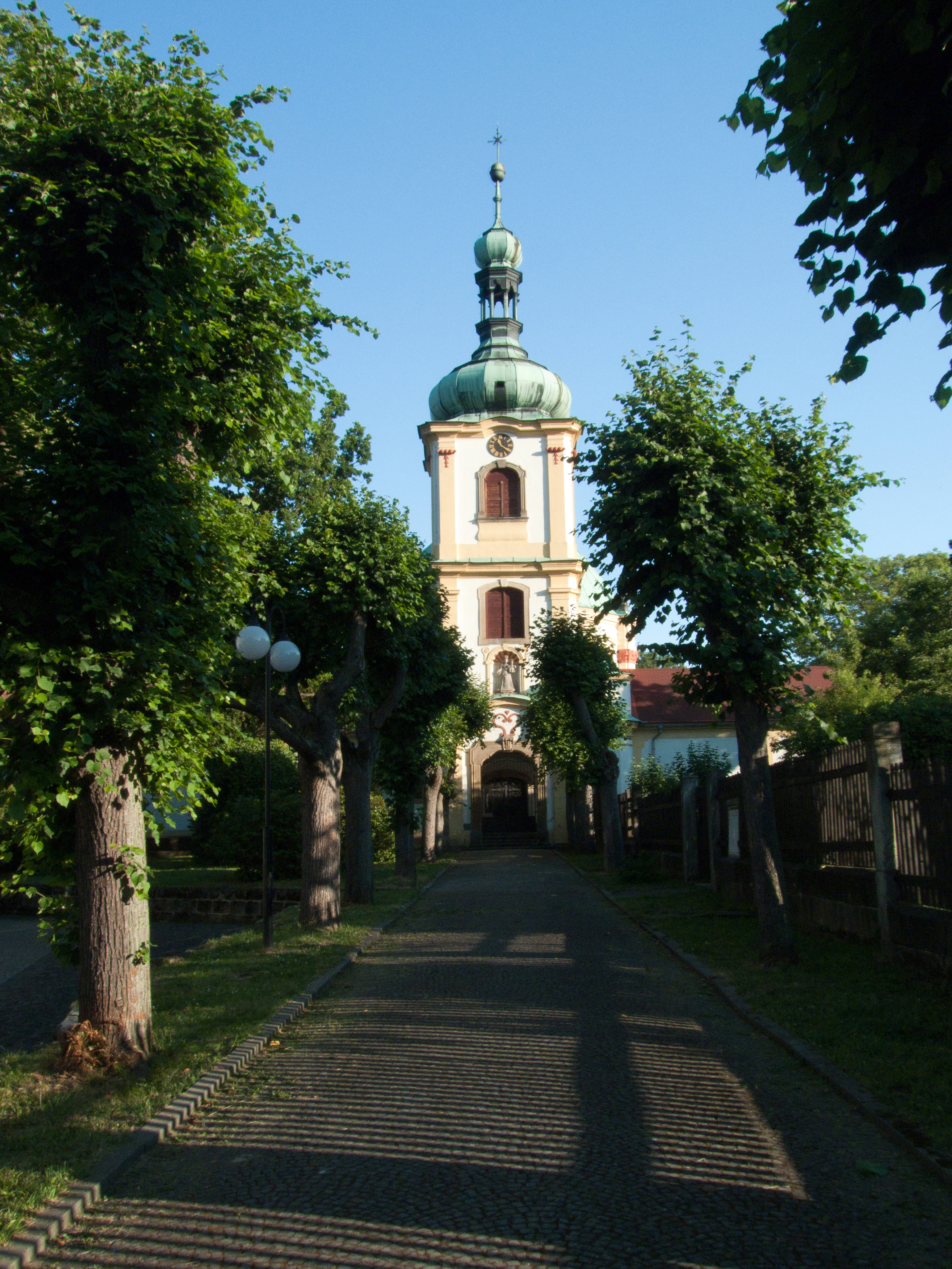 Entrance to the Nativity of Mary Chapel in the town of Česká Kamenice, (Czech Republic)